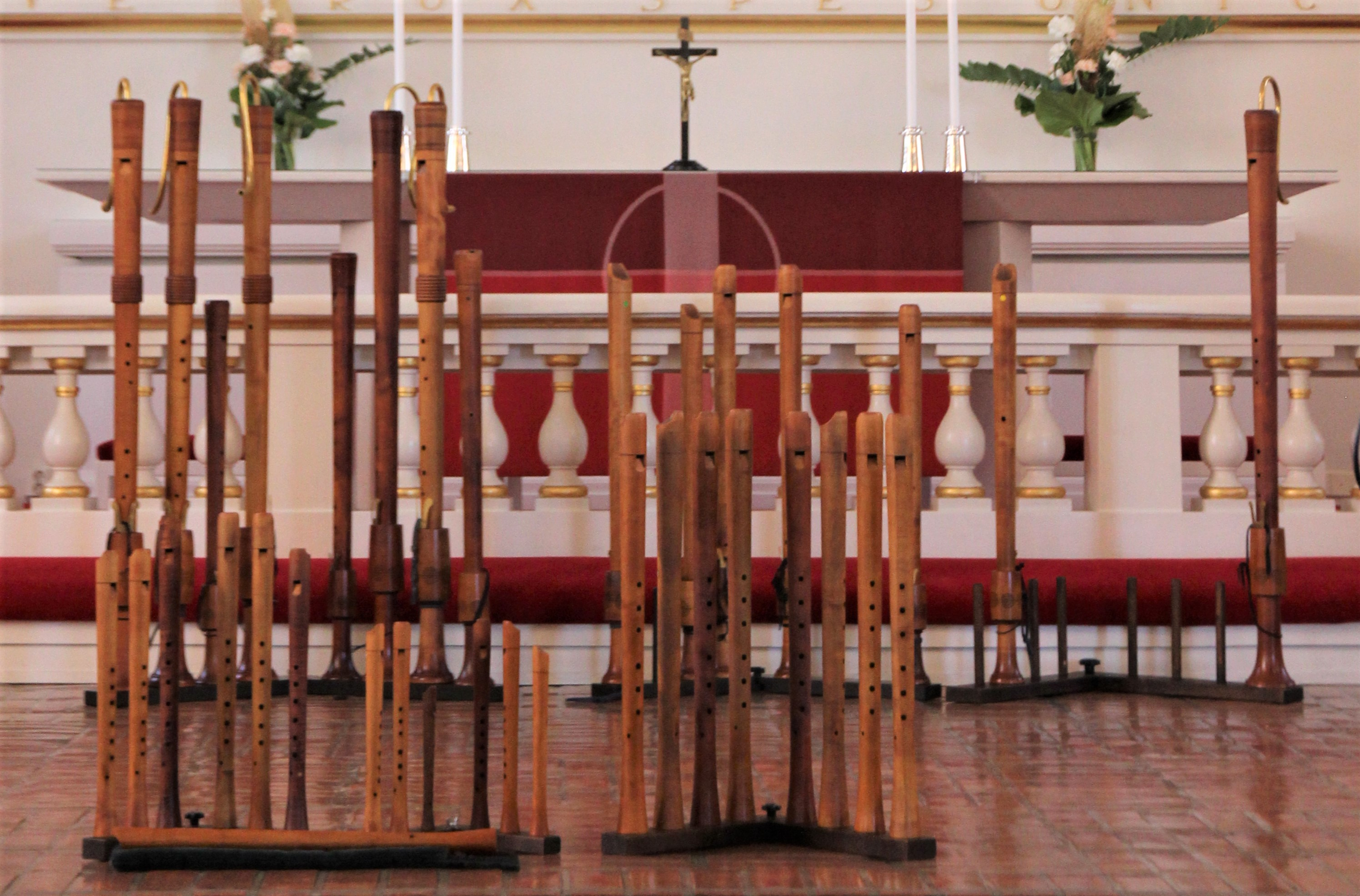 Recorders used The Royal Wind Music - a Dutch recorder consort - during a concert in Kuopio cathedral, July 21, 2019. Note! Both the picture and the text is published under CC-BY-SA-3.0 -license.